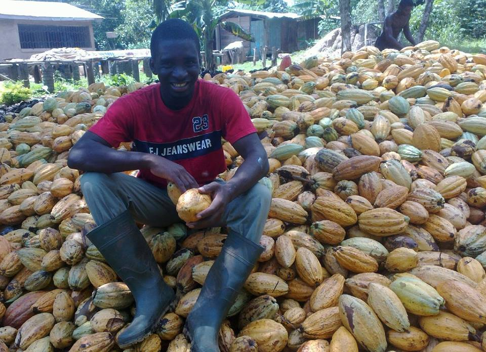 A cocoa farmer on his farm in Ghana